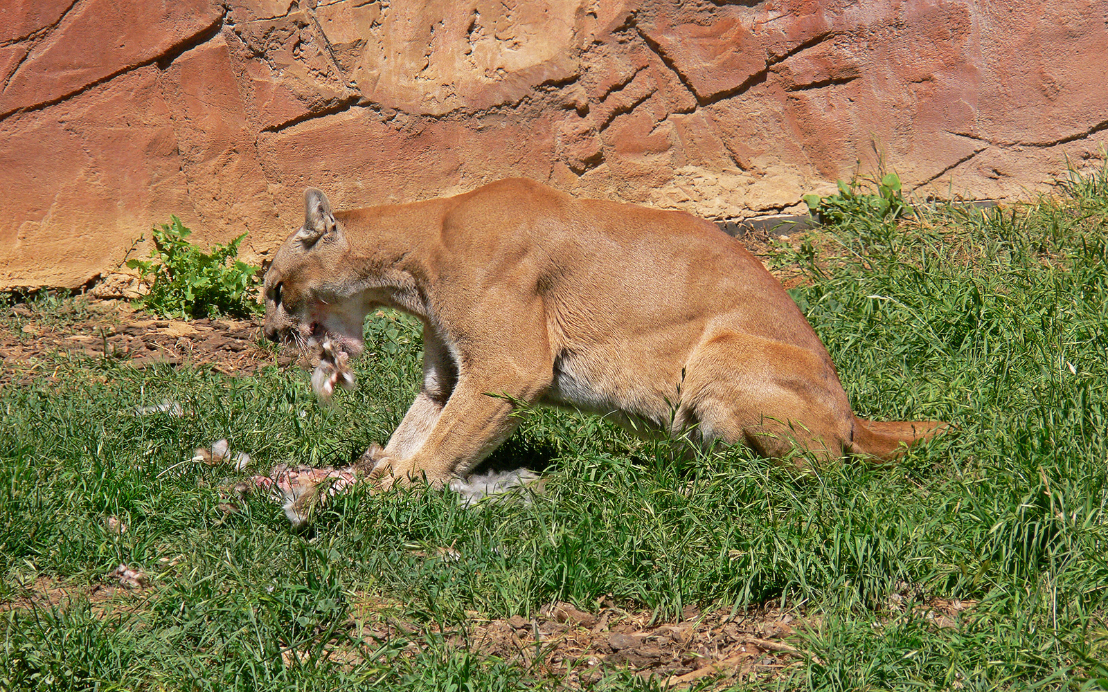 A mountain lion (also called Cougar and Puma)Puma concolor eating